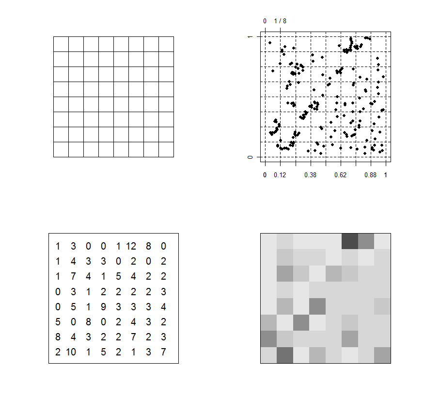 The four frames show a) a regular tessellation of the plane, b) the raster overlayed on the point pattern, c) the numbers of points in each cell, and d) a gray-scale image of the counts.